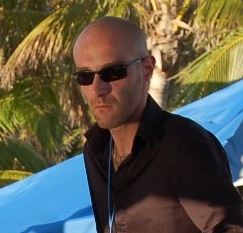 Vitalic, cropped from larger photo